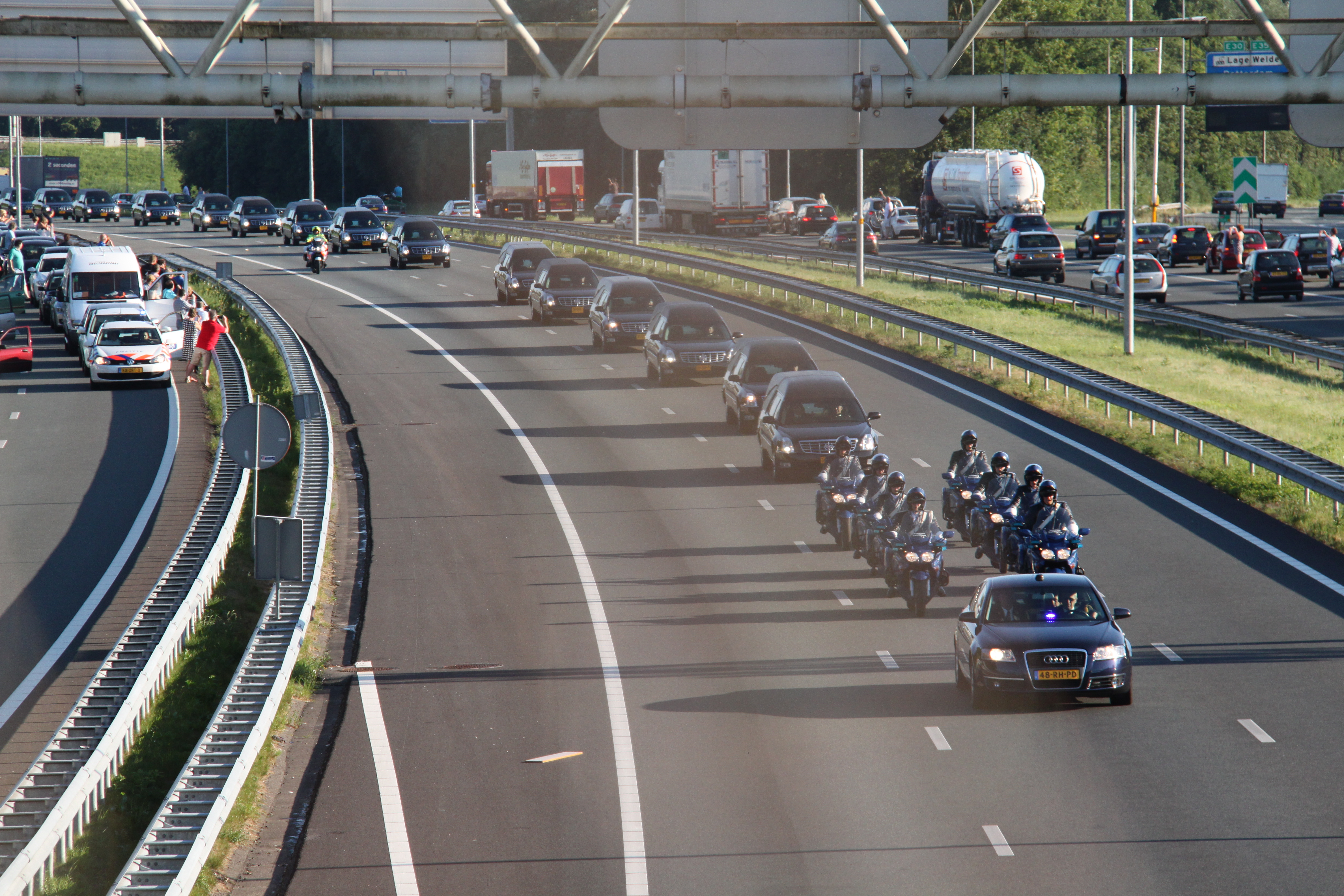 Picture of the national day of mourning in the Netherlands at 23 July 2014, the day on what the first bodies of the Malaysia Airlines Flight 17 disaster returned in the Netherlands. After two military planes landed at Eindhoven Airport, a convoy of 40 hearses rode to a military base near Hilversum. On the A2 and A27 motorway, regular traffic was stopped by Dutch police. Tens of thousands of people honoured the victims on bridges across the motorways and on road shoulders, as was seen i.e. here in Utrecht.